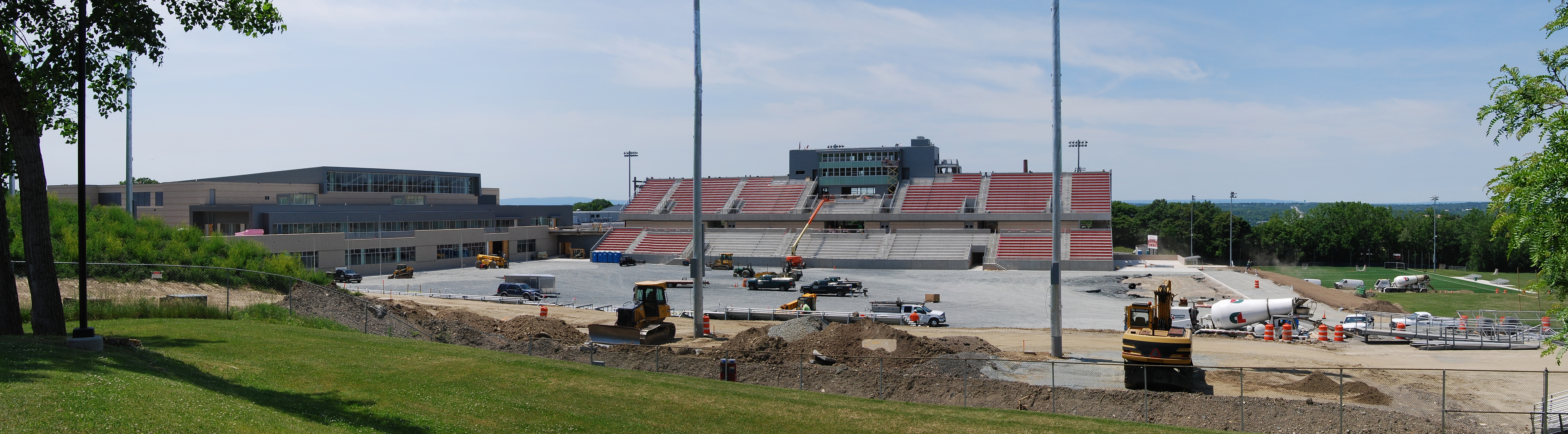 East Campus Athletic Village under construction on the campus of Rensselaer Polytechnic institute in Troy, New York, United States